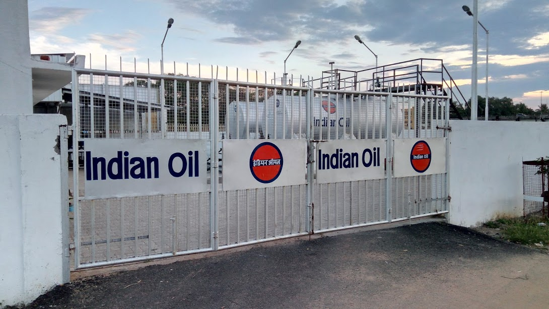 Indian Oil Consumer (Petrol Filling Station)